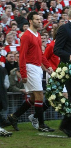 Giggs entering the pitch in the Manchester derby which honoured the deads in Munich air disaster.